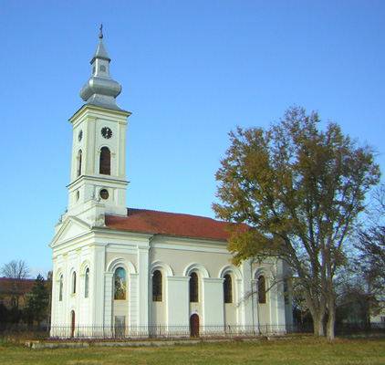 Orthodox Church in Vračev Gaj, Vojvodina, Serbia